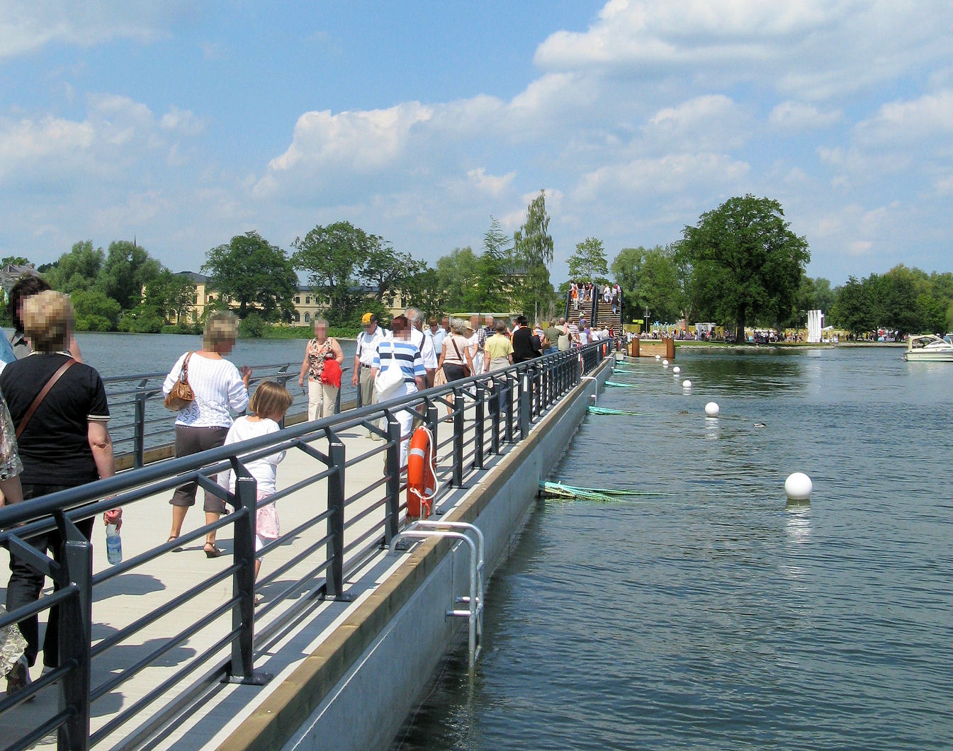 Bundesgartenschau 2009 - Pontoon bridge in Schwerin, Mecklenburg-Vorpommern, Germany